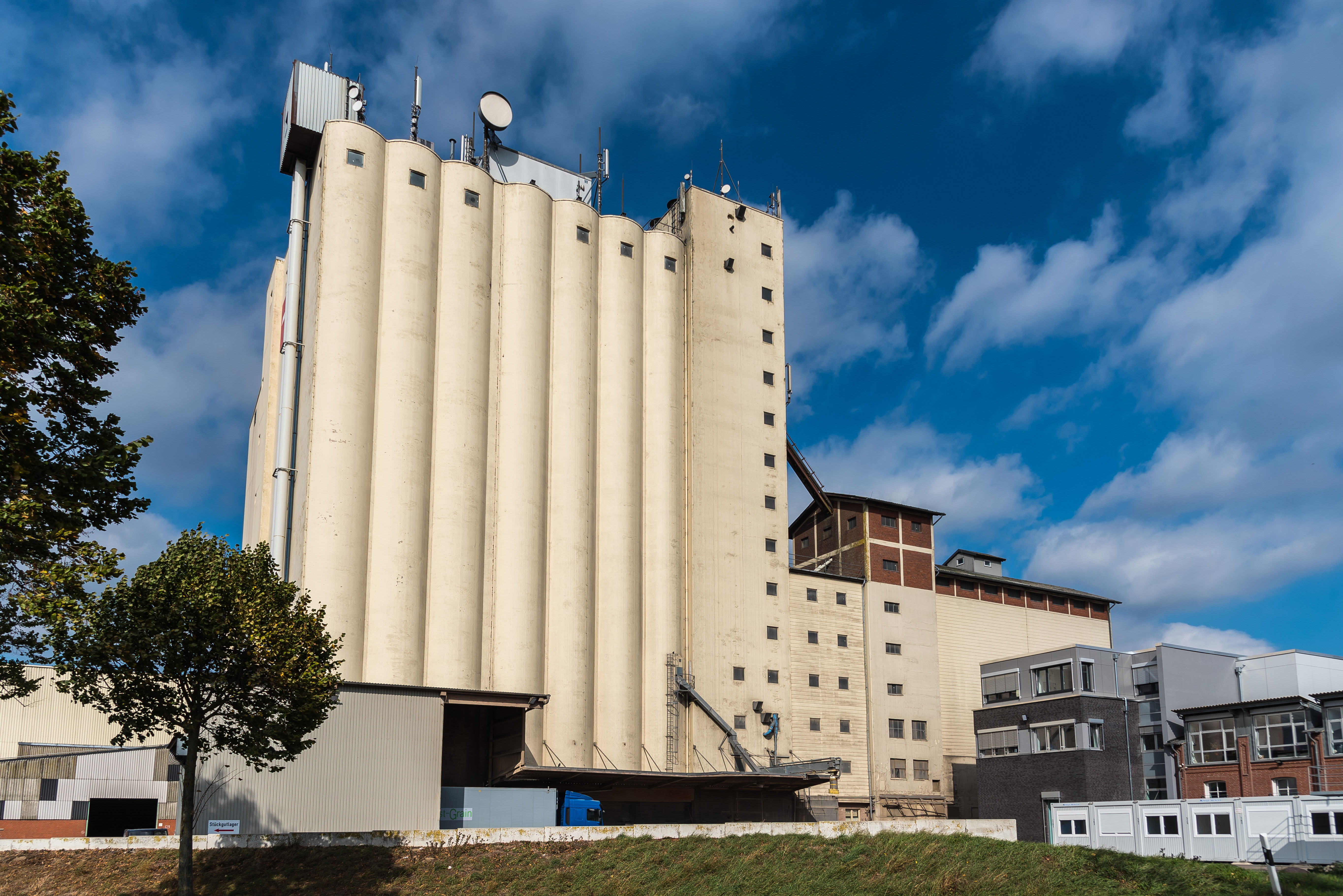 Grain elevator of ATR Landhandel, an agricultural trading company in Ratzeburg, Herzogtum Lauenburg, Schleswig-Holstein, Germany.